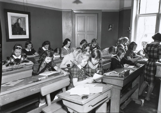 A class room at Ingrid Jespersens Skole in Copenhagen, Denmark